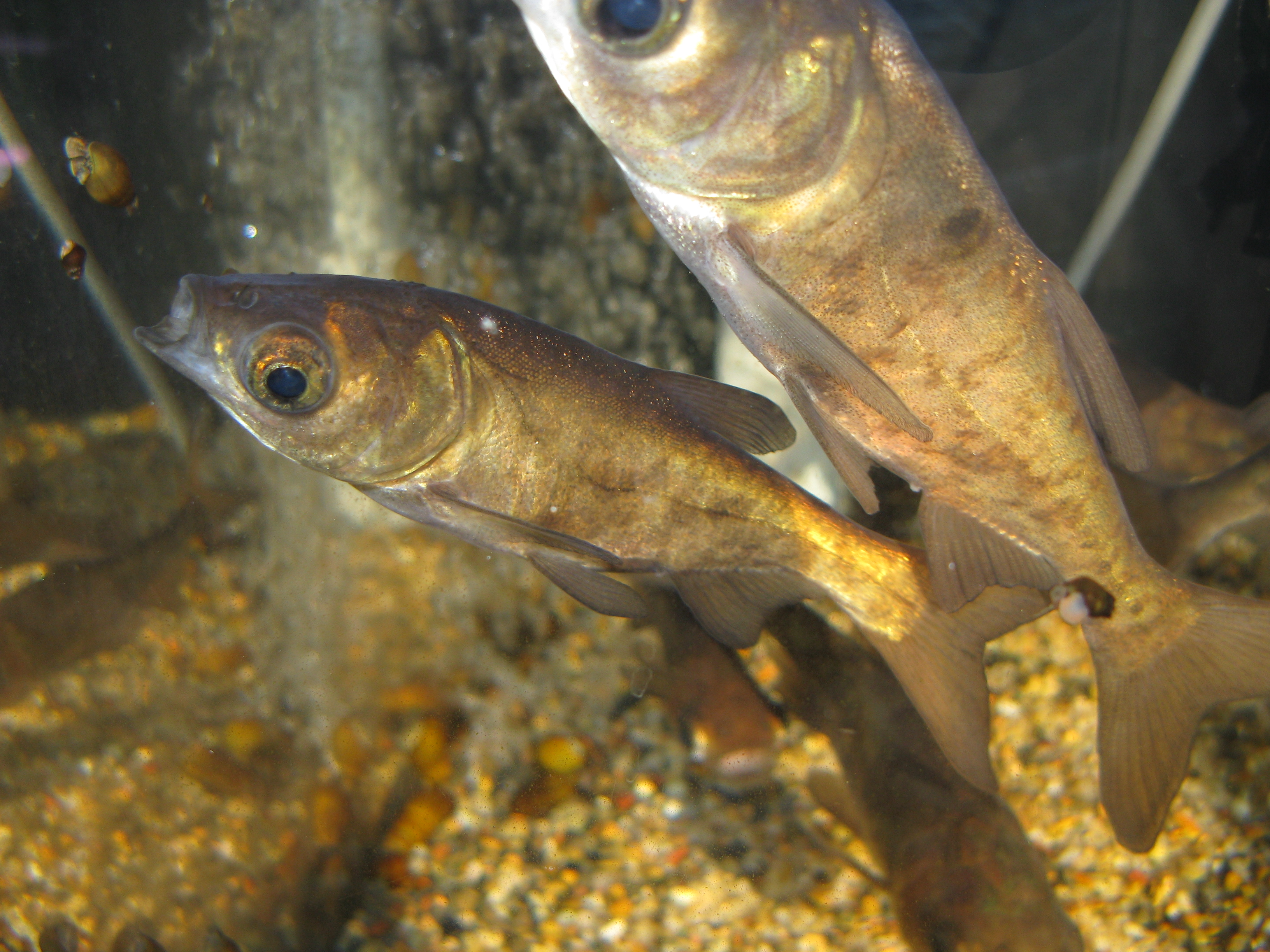 Scientific name Hypophthalmichthys nobilis